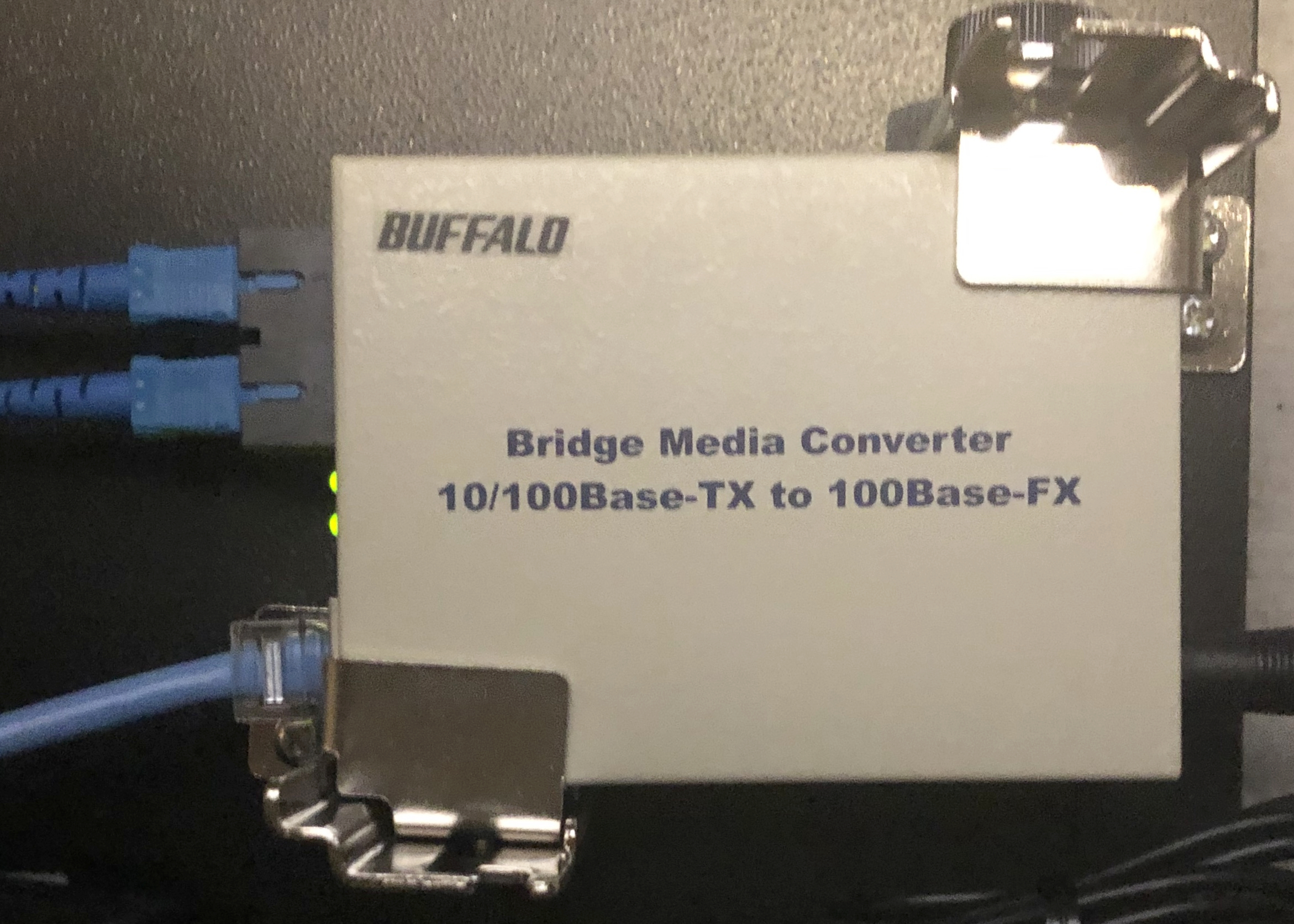 100Mbps Media Converter LTR2-TX Series